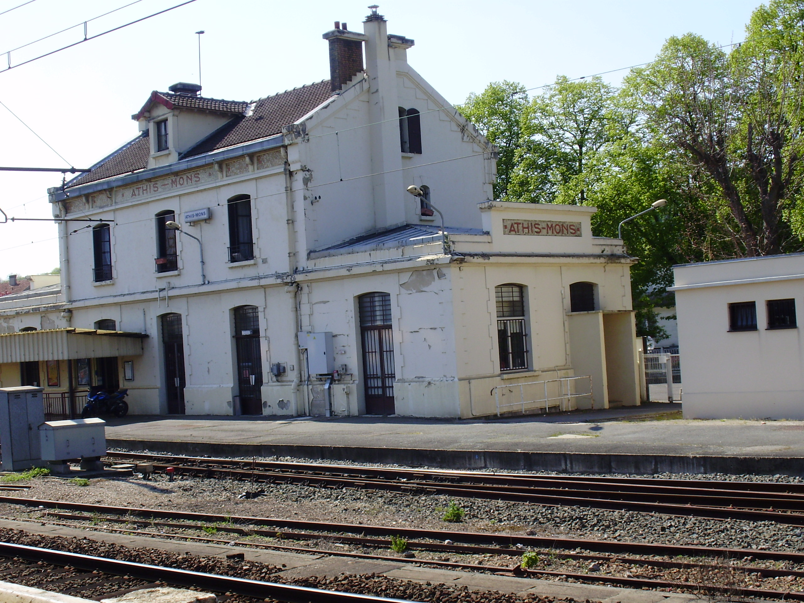 Building of Athis-Mons station (viewed since platform to Paris), Essonne, France